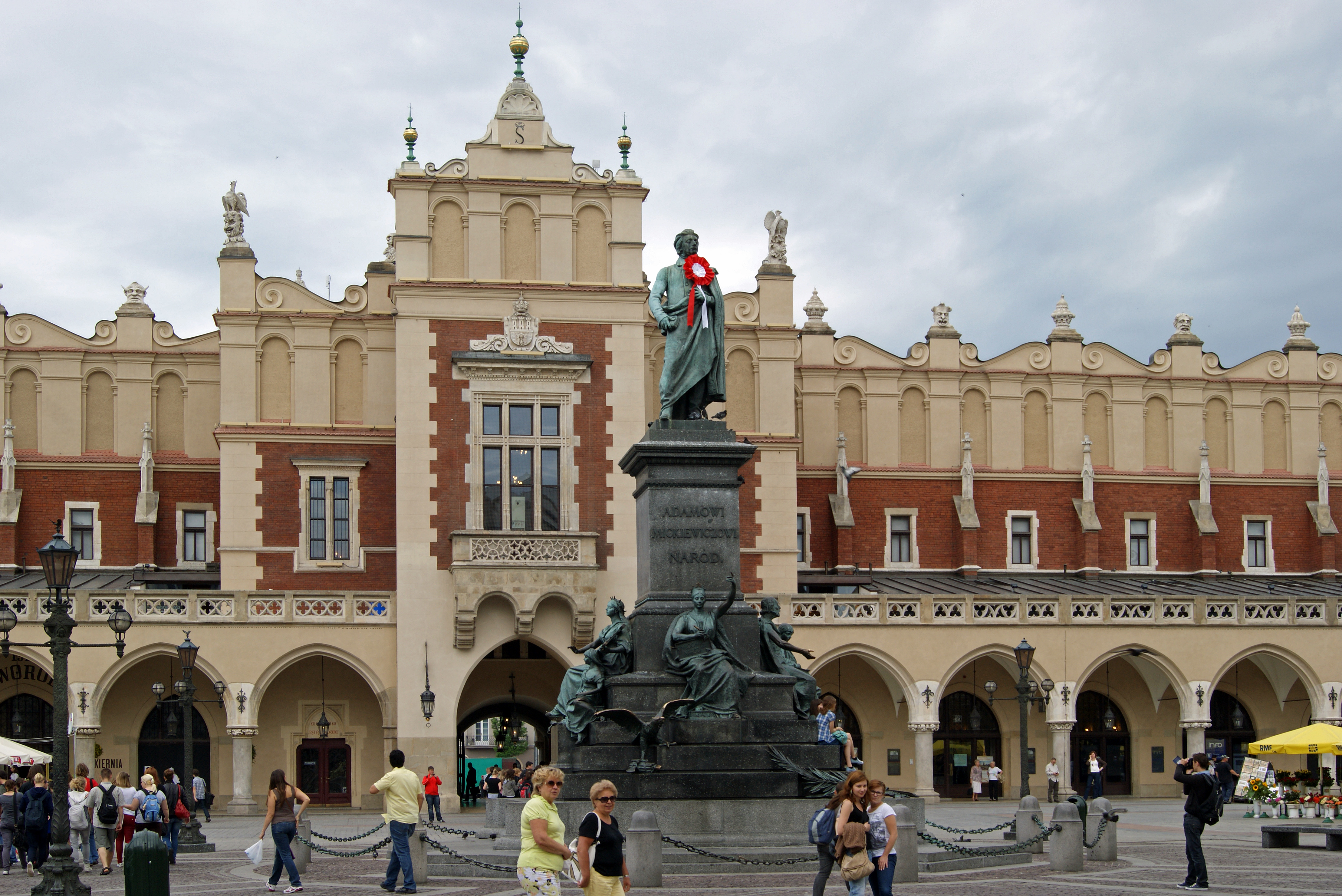 Adam Mickiewicz monument, Main Market square, Old Town, Krakow, Poland